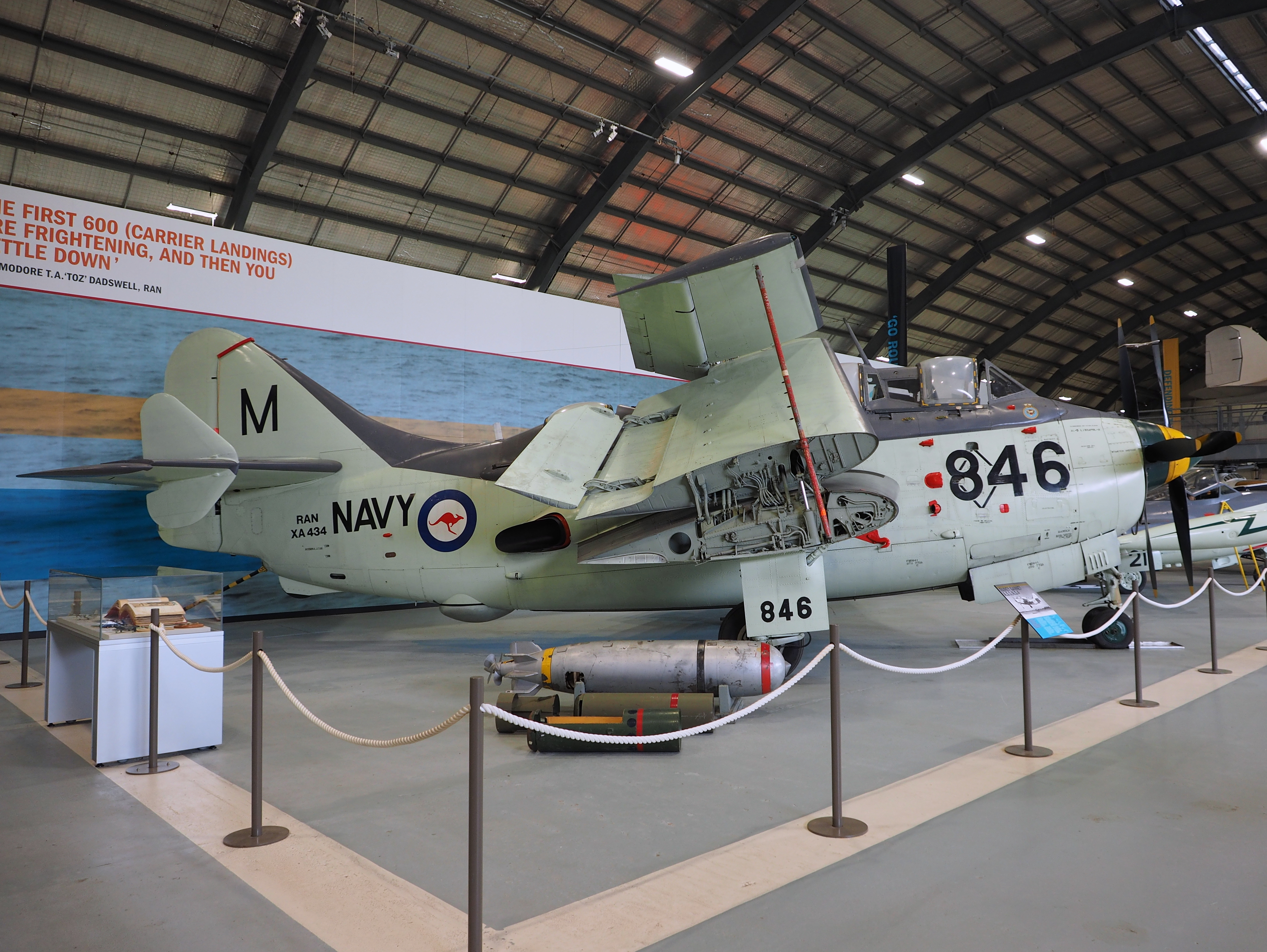 A former Royal Australian Navy Fairey Gannet on display at the Fleet Air Arm Museum